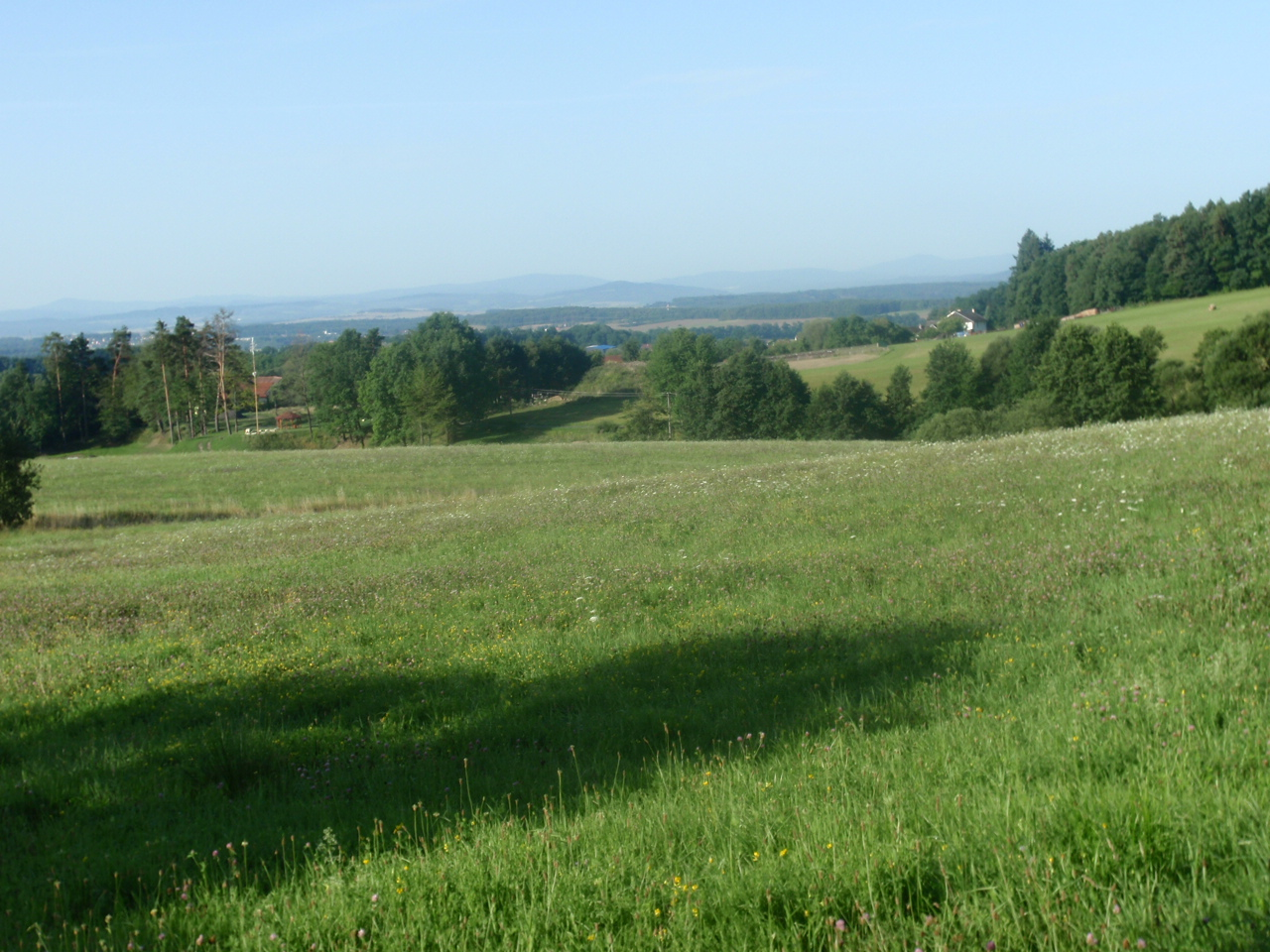 Kukle,Czech Republic.